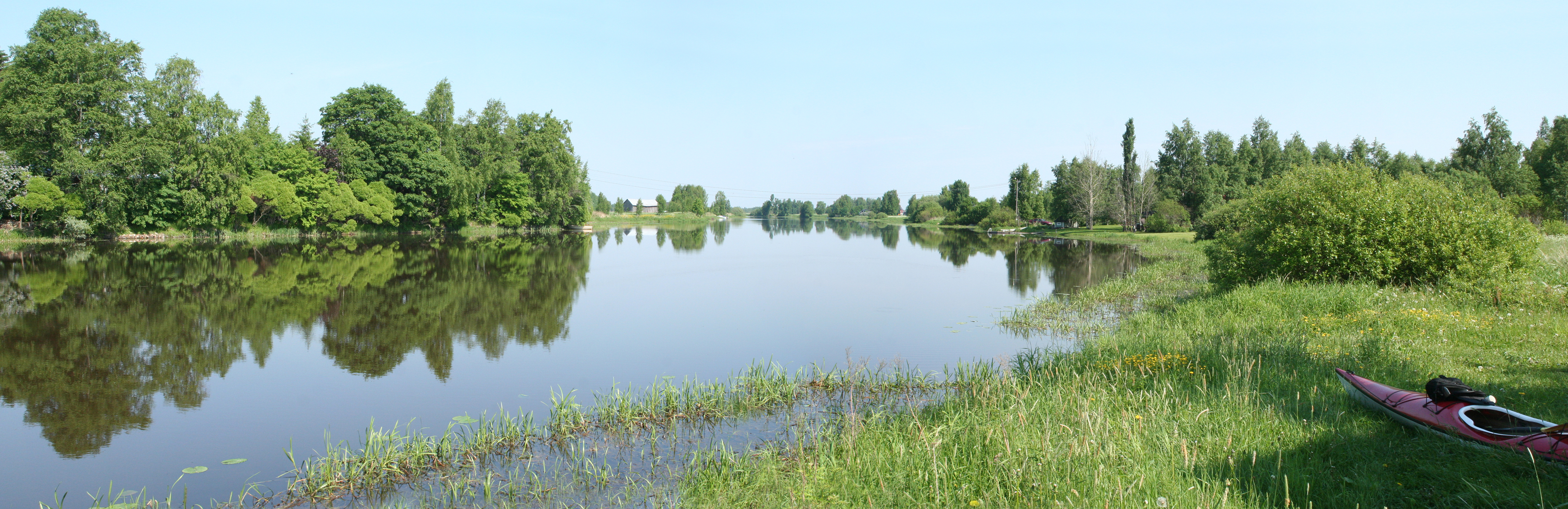 River Kokemäenjoki seen from Beach Vankila, Huittinen, Finnland